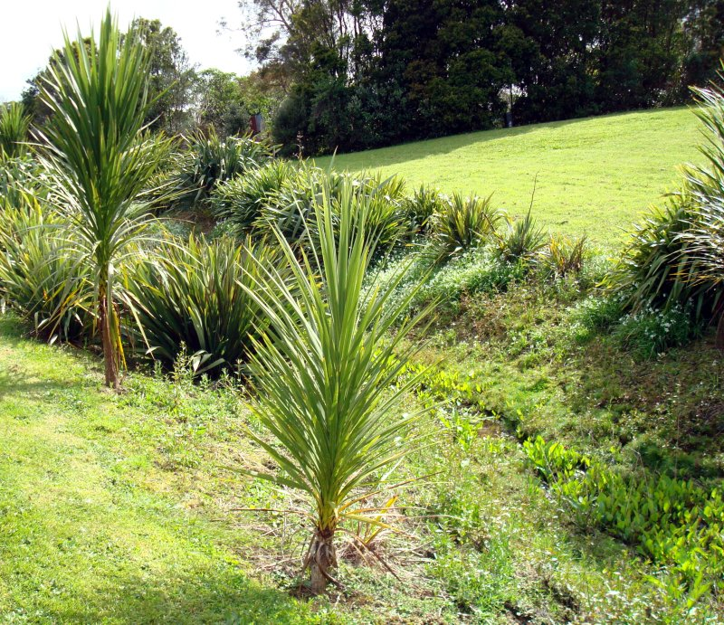 Author: New Zealand Tourism Research Institute. Taken near the origin of Meola Creek.